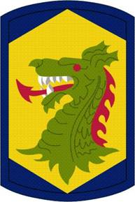 404th Chemical Brigade shoulder sleeve insignia